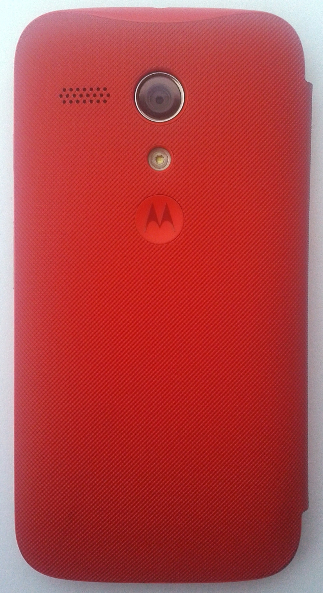 Moto G XT1032 8GB